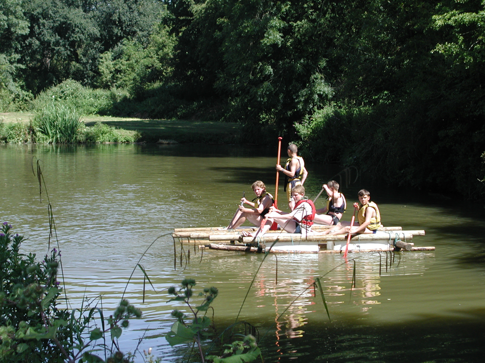 Scouts paddling a raft that they had built at Tolmers Scout Campsite at Cuffley, Hertfordshire, in 2007.